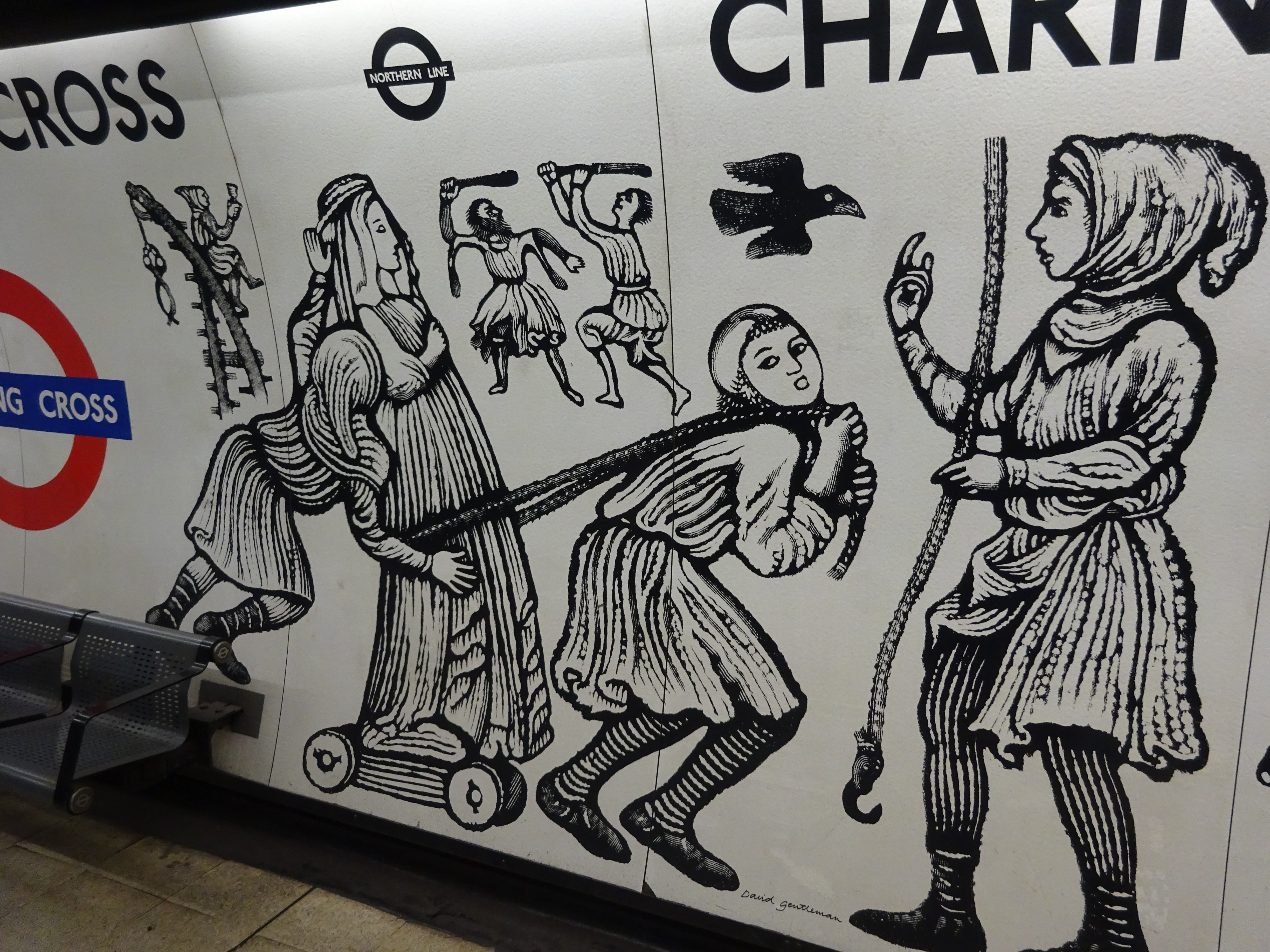 Detail of 1979 mural by David Gentleman, Northern Line platforms, Charing Cross tube station, London, showing the erection of the medieval Eleanor cross